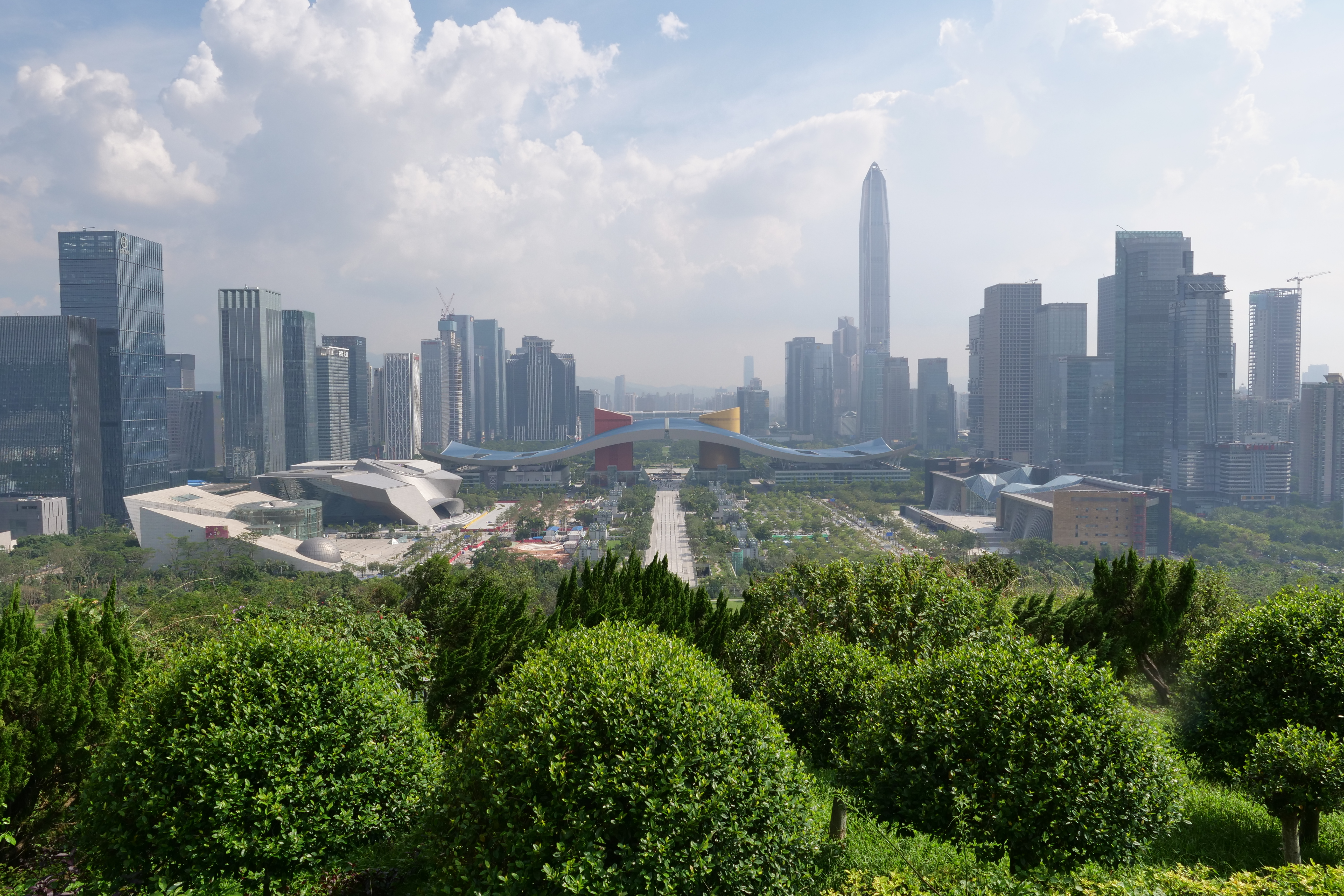 Civic Center, Shenzhen Lianhuashan Park (2018.9)